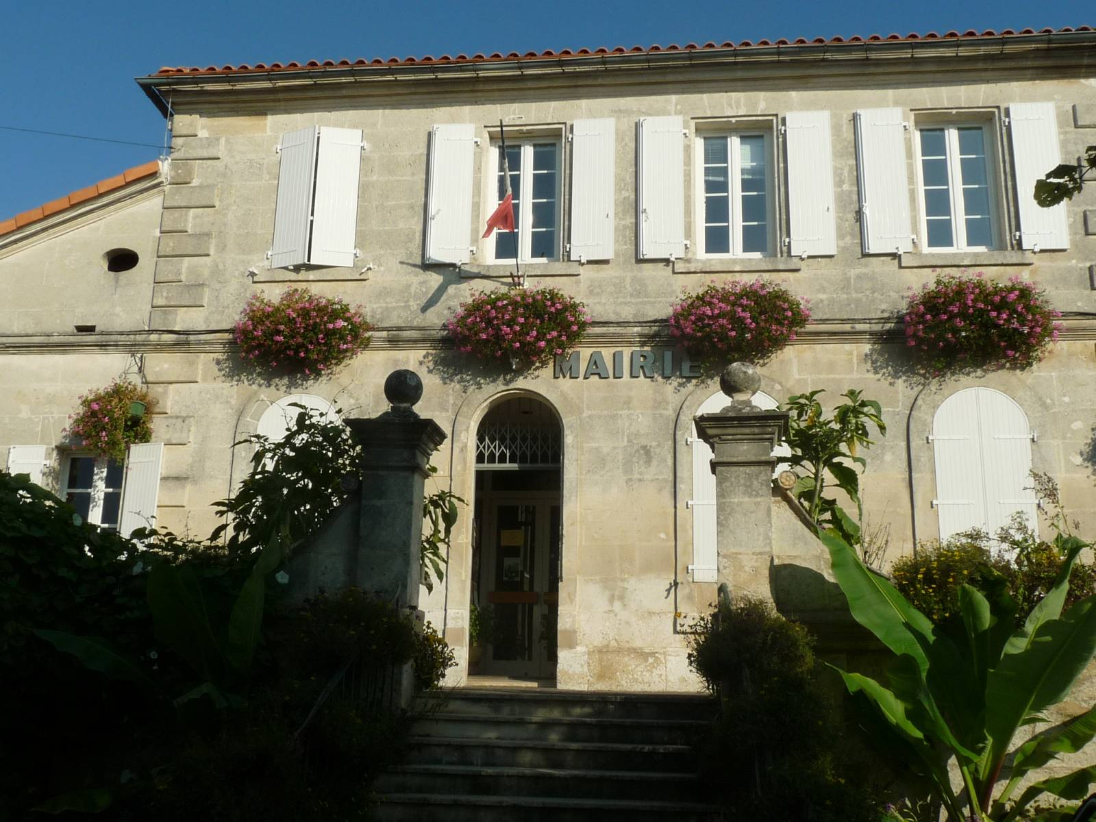 town hall of Linars, Charente, SW France